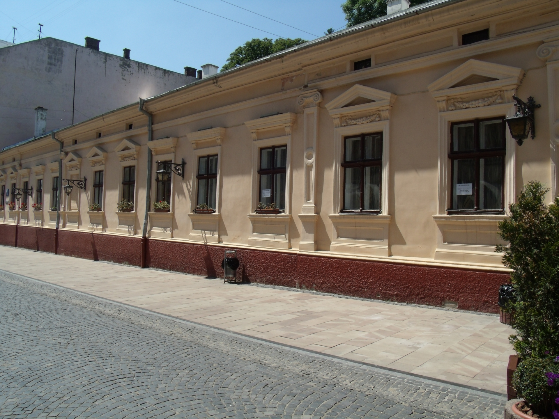 Chernivtsi, Kobylianska house 40